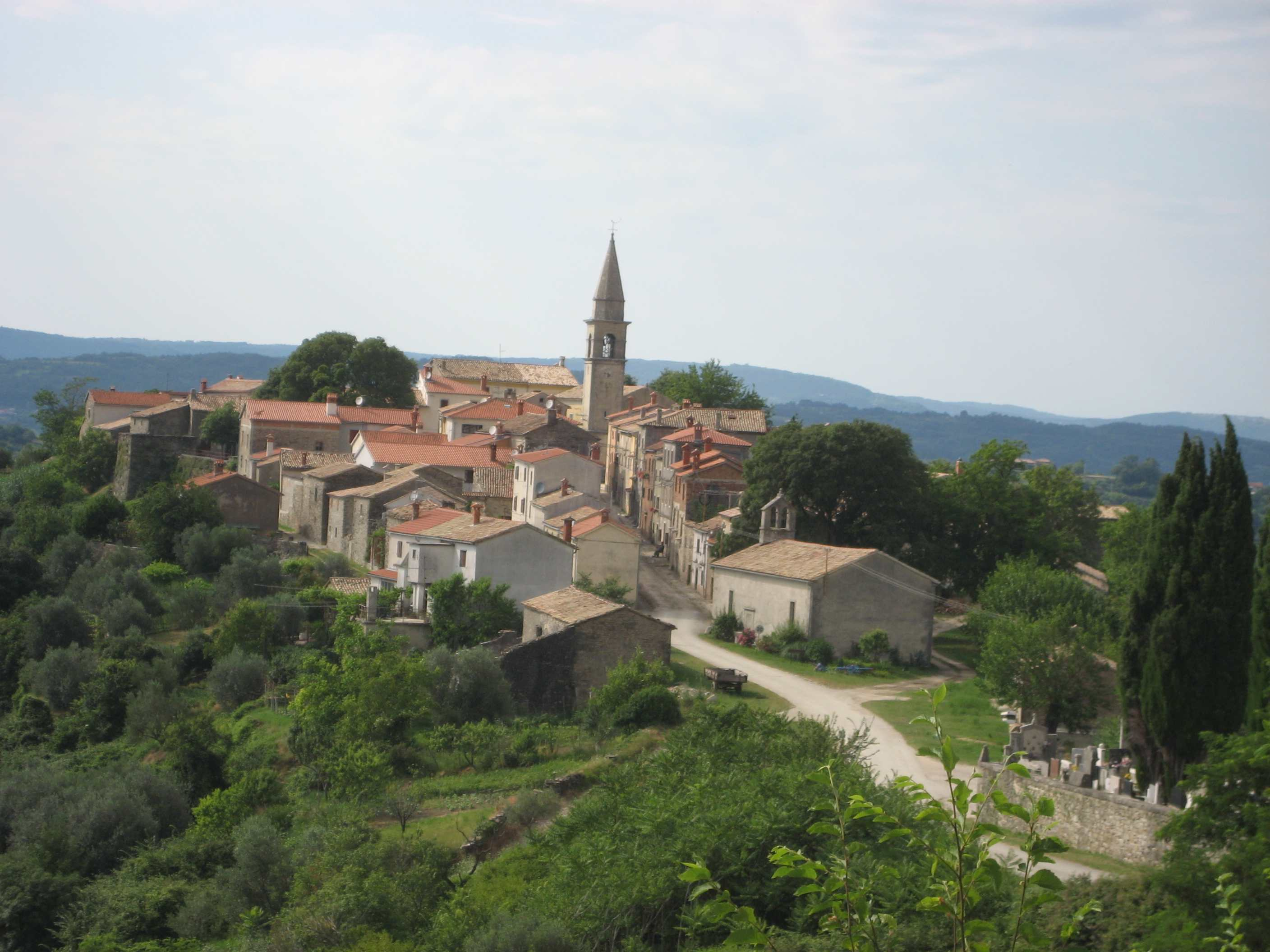 Village Draguc, northwest Croatia